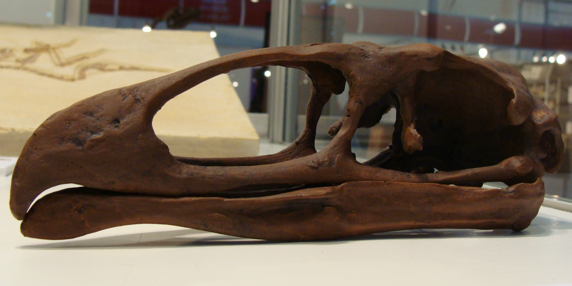 Teratornis skull in Expominer 2008, Barcelona, Catalonia.